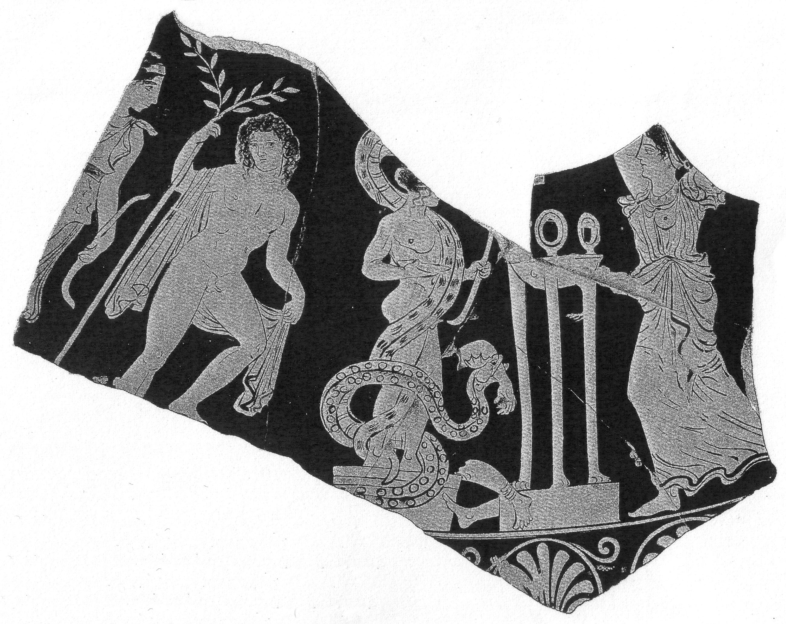 Drawing by Michele Jatta showing the fragments of a mid-apulian crater in the national museum in Ruvo di Puglia.